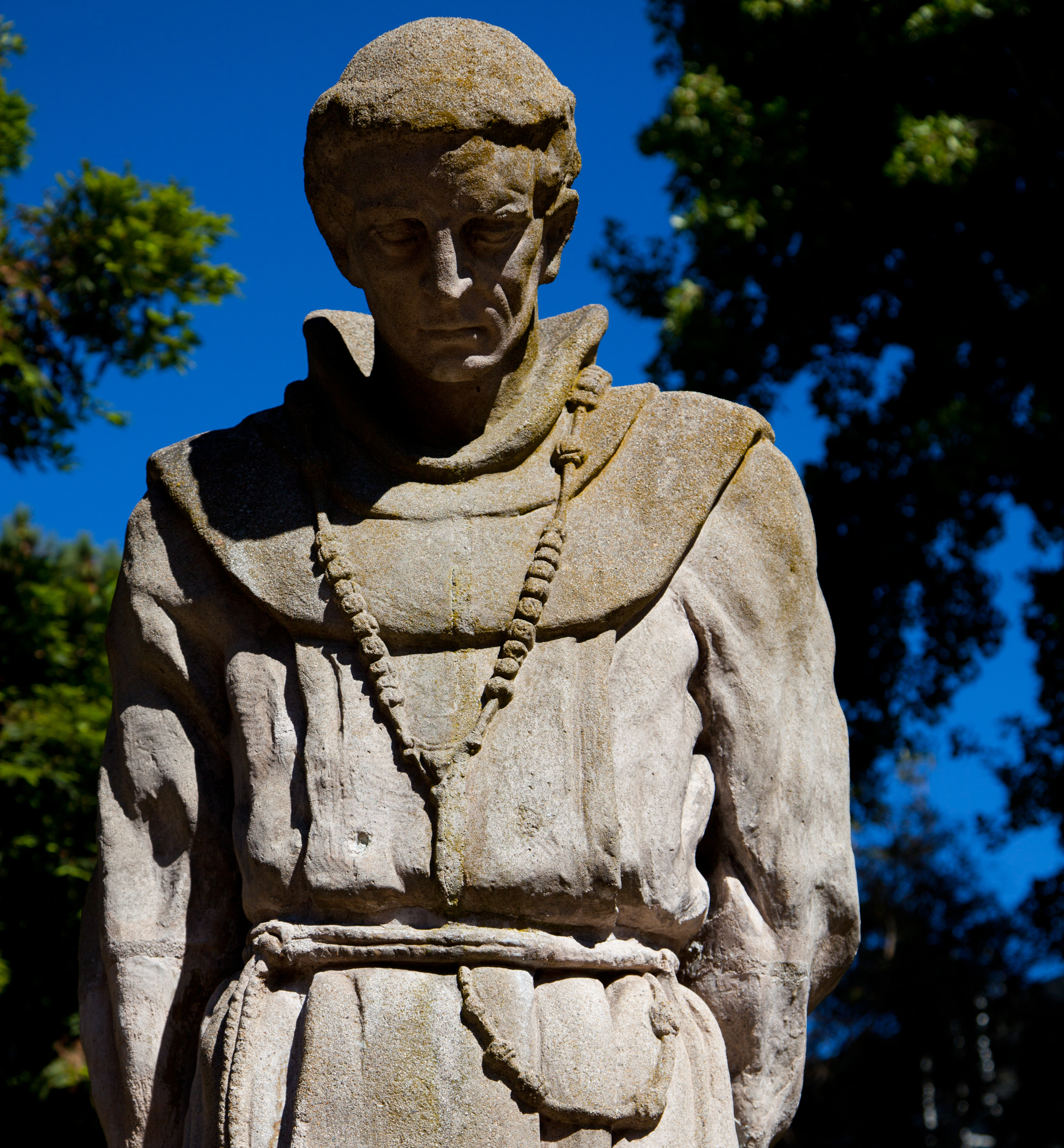 Father Junipero Serra, (sculpture). Mission Dolores